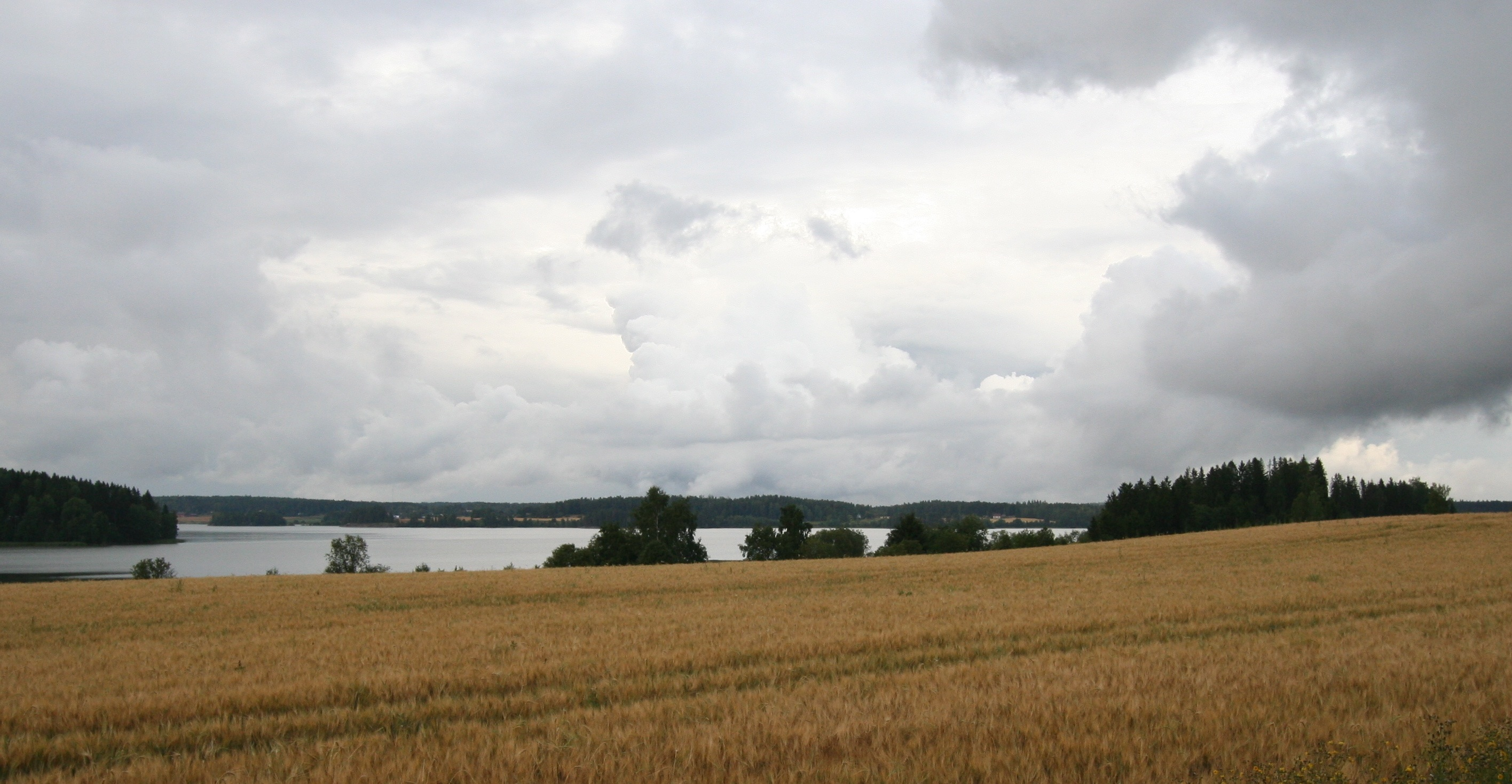 Lake Mallusjärvi from South